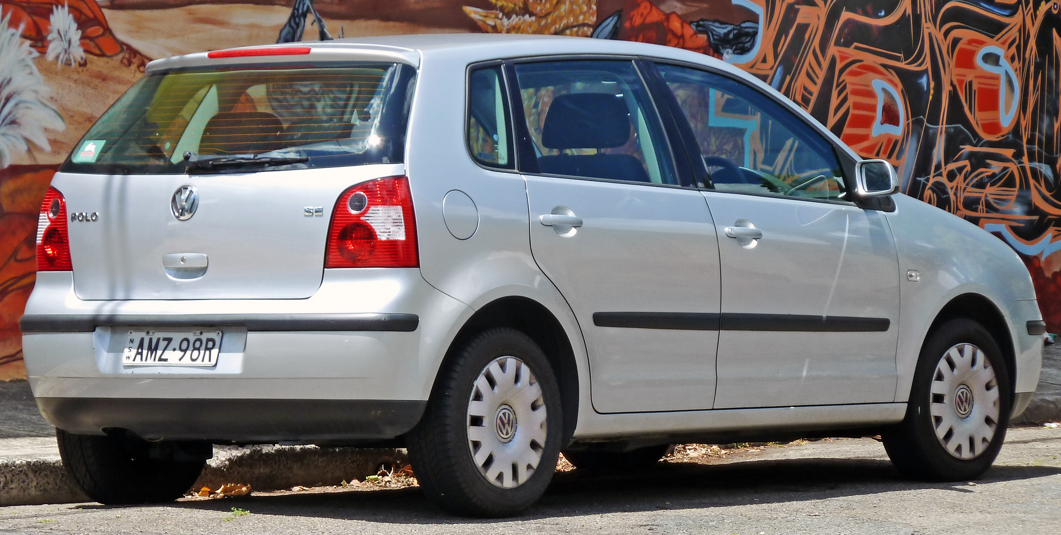 2002–2003 Volkswagen Polo (9N) SE 5-door hatchback. Photographed in Newtown, New South Wales, Australia.